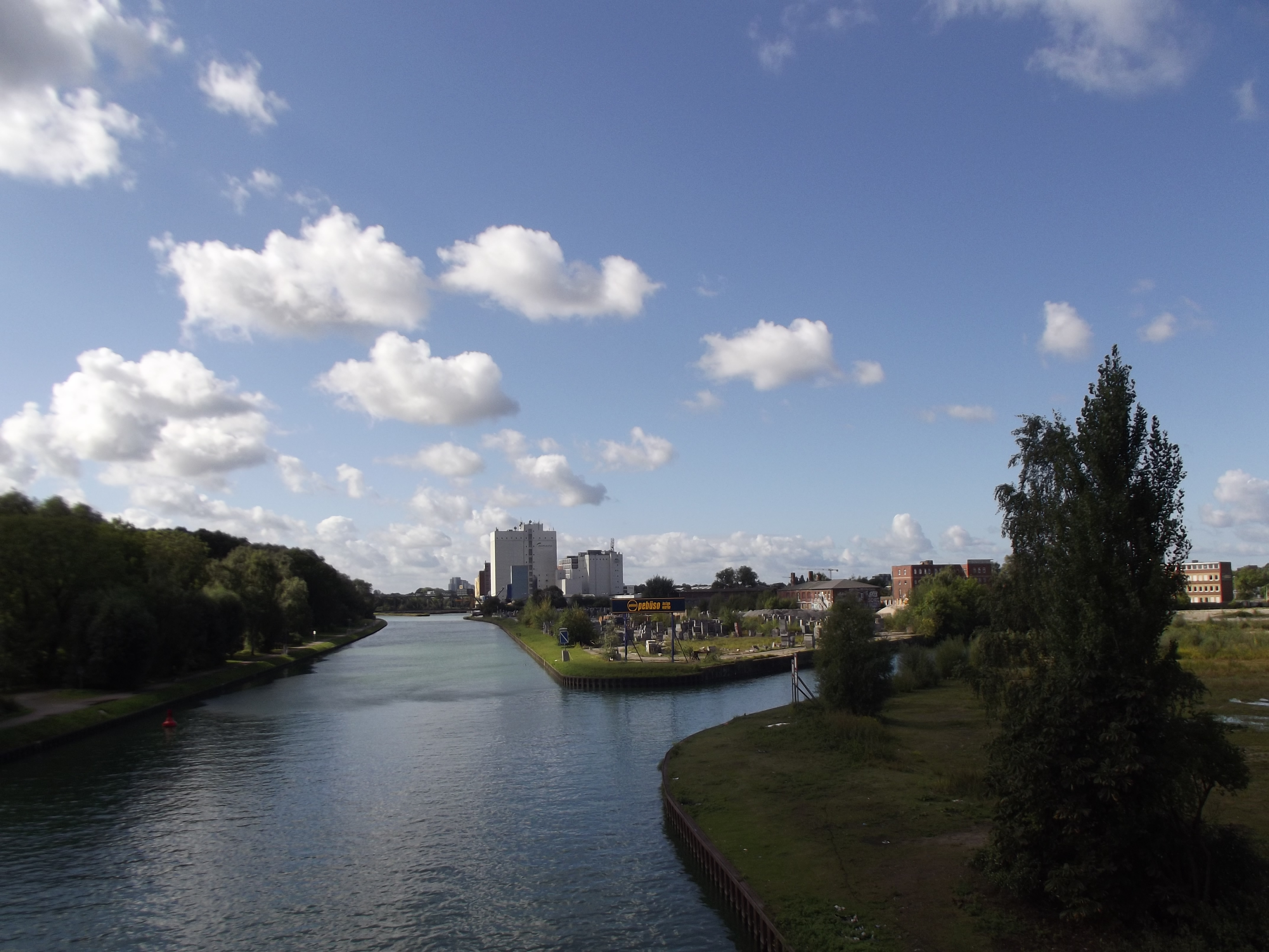 Seen from a bridge